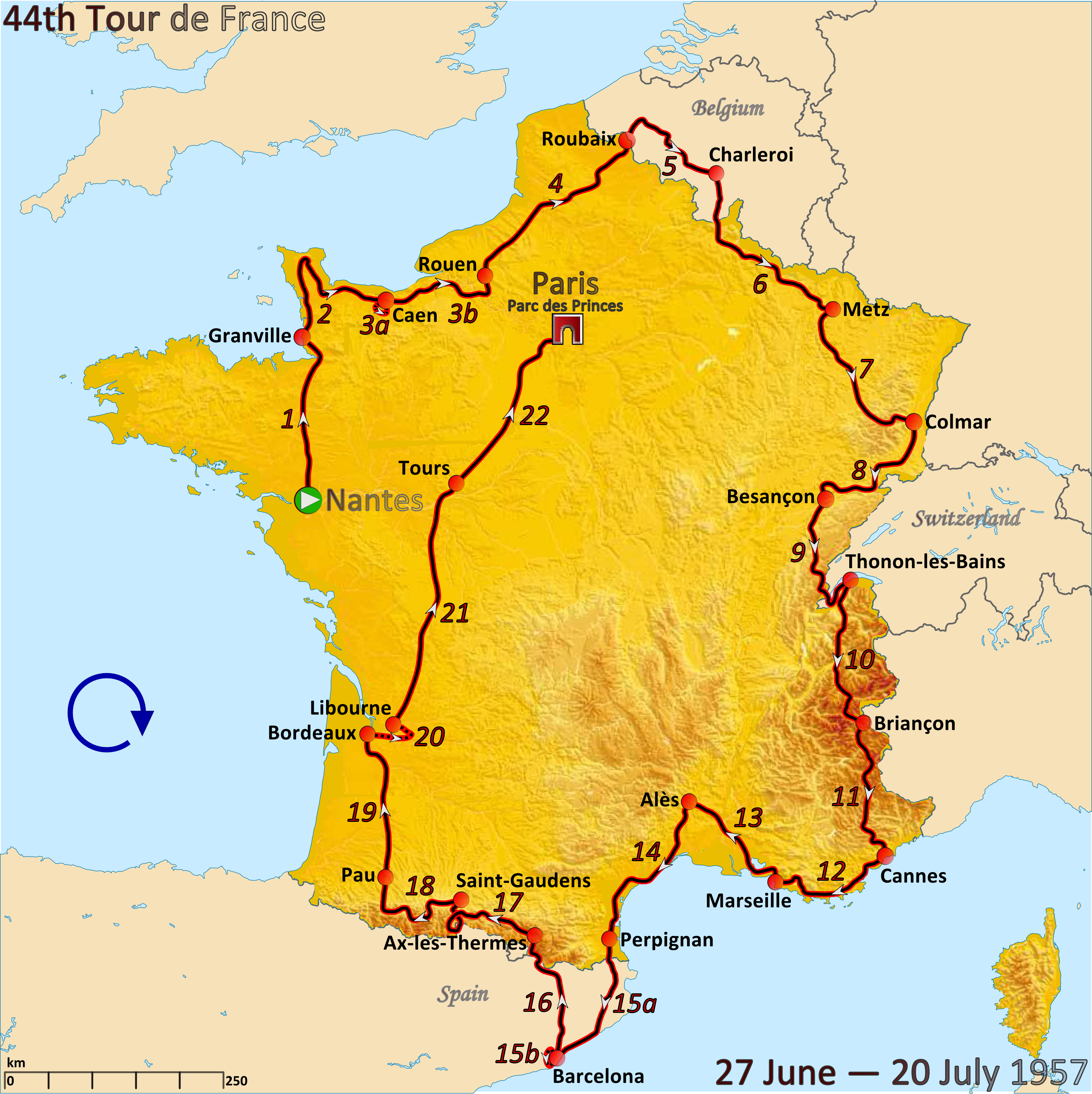 Map of the 1957 Tour de France created in Inkscape using accurate stage maps from touratlas.nl.